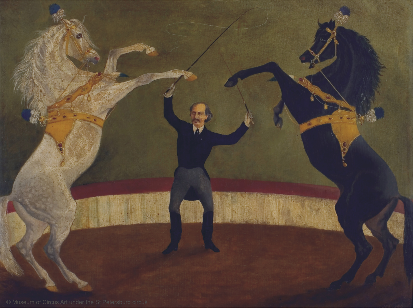 Italian-born Gaetano Ciniselli (1815−81) was a circus equestrian and horse trainer who in 1877 founded the Ciniselli Circus (now the Bolshoi Saint Petersburg State Circus). The circus was housed in the first stone structure in Russia purpose-built for circus. In this painting, Ciniselli is shown performing the liberty horse act, which was an invariable part of the circus program until his death in 1881. The term "liberty horse act" refers to an act in which the horses are directed with verbal commands and are not mounted or held by reins; the horses are "at liberty." The Ciniselli Circus horse stables consisted of 100 stalls, with a special area for keeping ponies. The painting, dating from 1877, is by E. Martinik, about whom little is known. Ciniselli, Gaetano, 1815-1881; Circus; Circus Ciniselli; Circus performers; Entertainers; Horsemanship; Horses